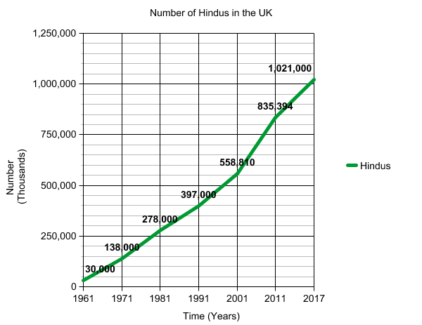 The number of Hindus in the UK between 1961-2017.